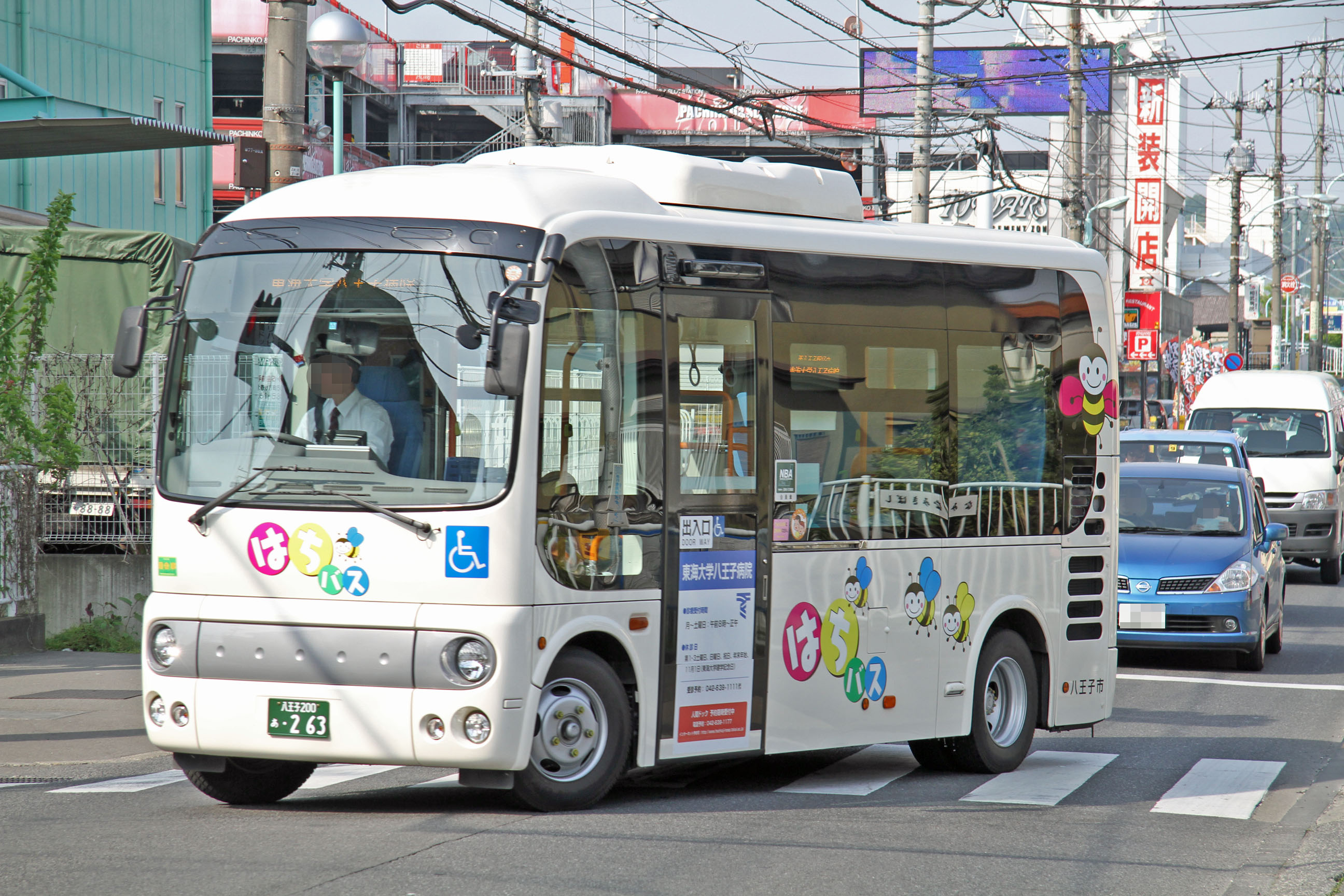 Hachioji City Comunity Bus "Hachibus" 八王子市コミュニティバス「はちバス」